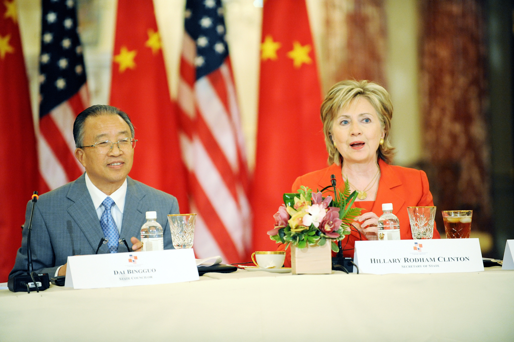 U.S. Secretary of State Hillary Rodham Clinton during a meeting with Chinese State Councilor Dai Bingguo in the Treaty Room of the U.S. Department of State July 28, 2009. [State Department photo by Michael Gross]